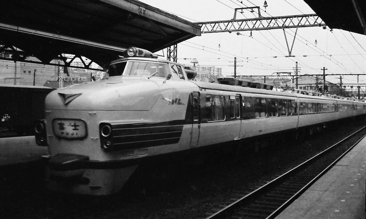 A JNR 151 series EMU at Yokohama Station on a "Fuji" limited express service